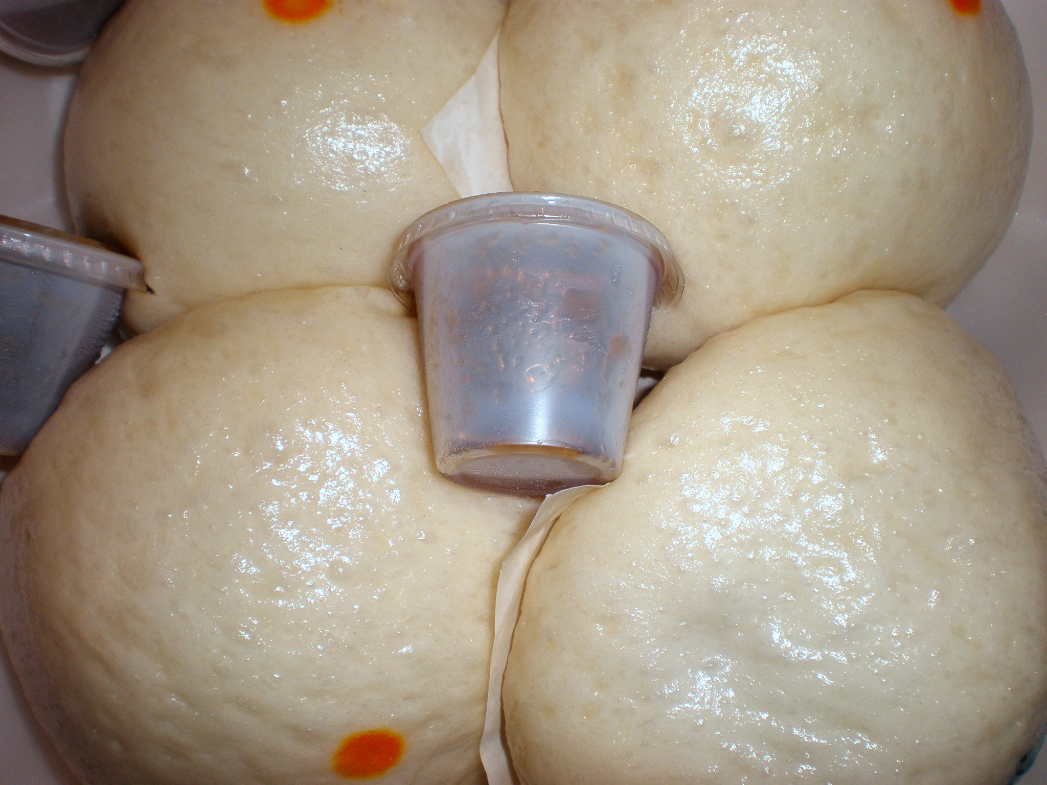 Four siopao buns. Flavor unknown.